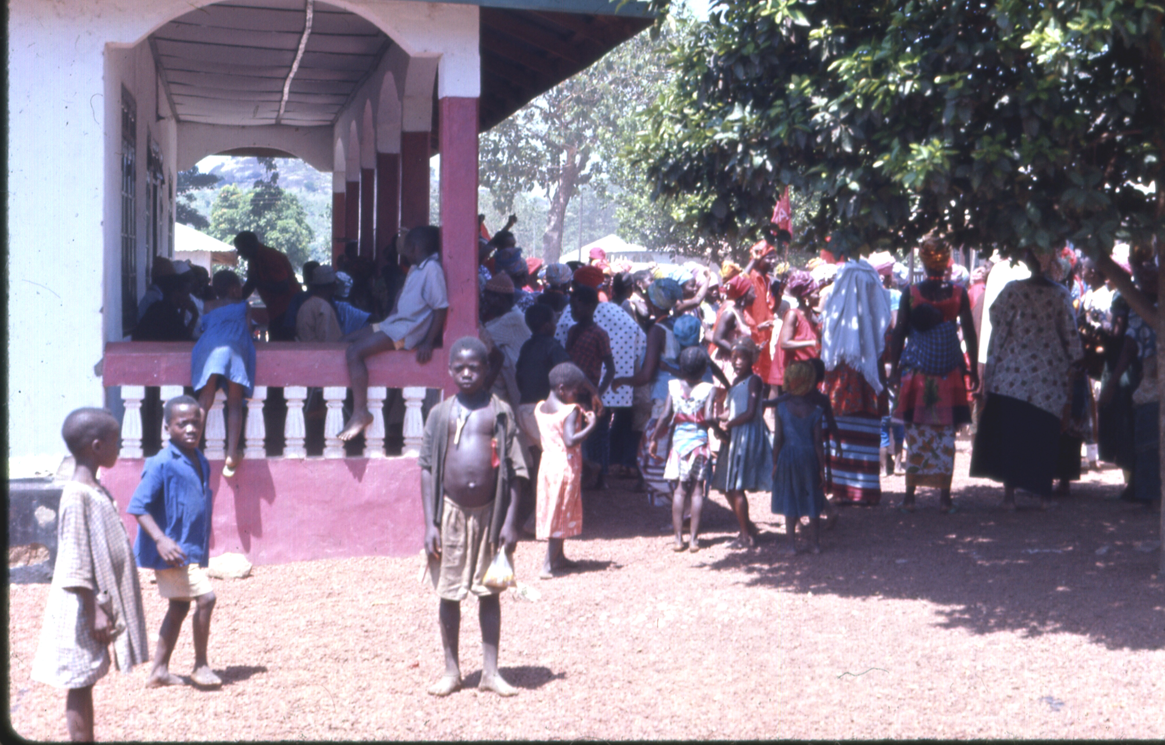 Red is the colour of the All People's Congress (A.P.C); they were demonstrating in front of houses belonging to people who supported the rival Sierra Leone People's Party (S.L.P.P.). Photo taken in 1968.